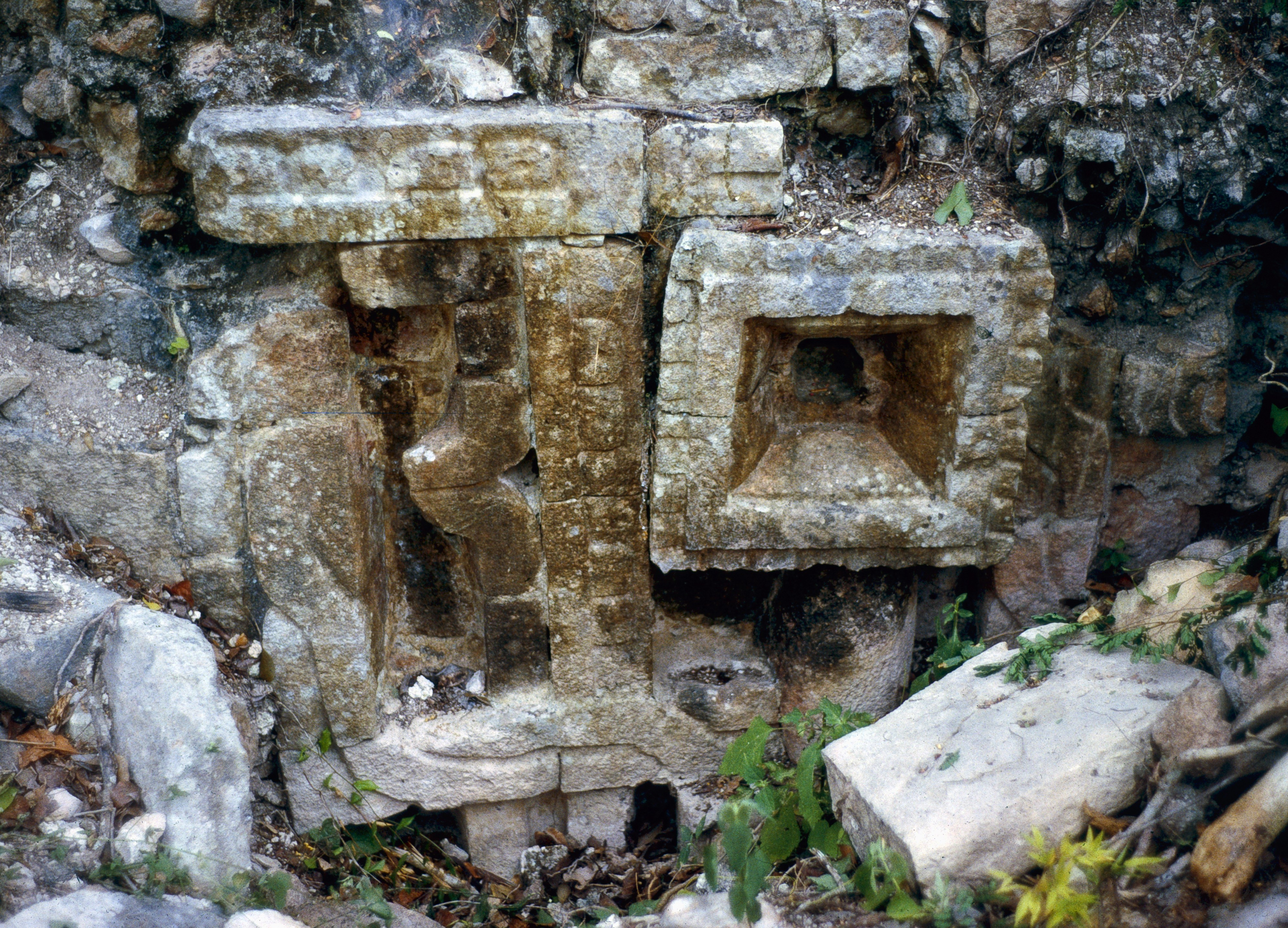 Xburrotunich (near Oxkintoc), Opichen, Yucatan, Mexico: Fragments of dragon mouth entrance